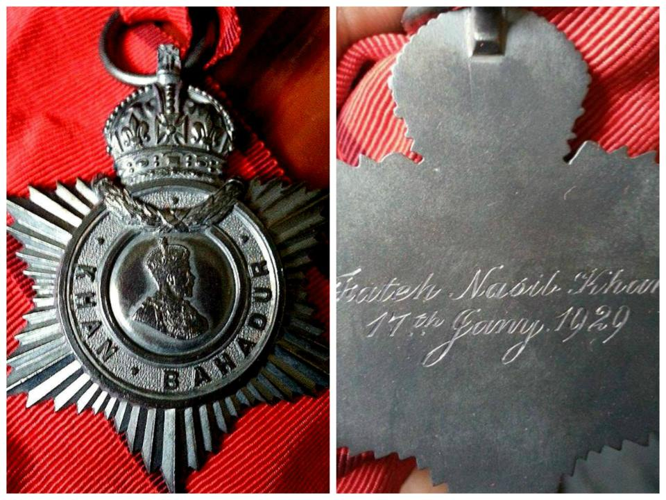 Order of the Indian Empire “KHAN BAHADUR” title awarded to General Fateh Naseeb Khan of Alwar State Forces on 17th of January 1929.